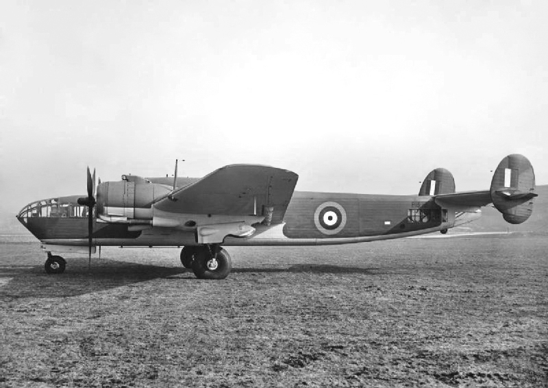 Armstrong Whitworth Albemarle Mk I (P1372) at Hucclecote in Gloucestershire, after assembly at the Hawkesley Aircraft Company, 6 March 1942